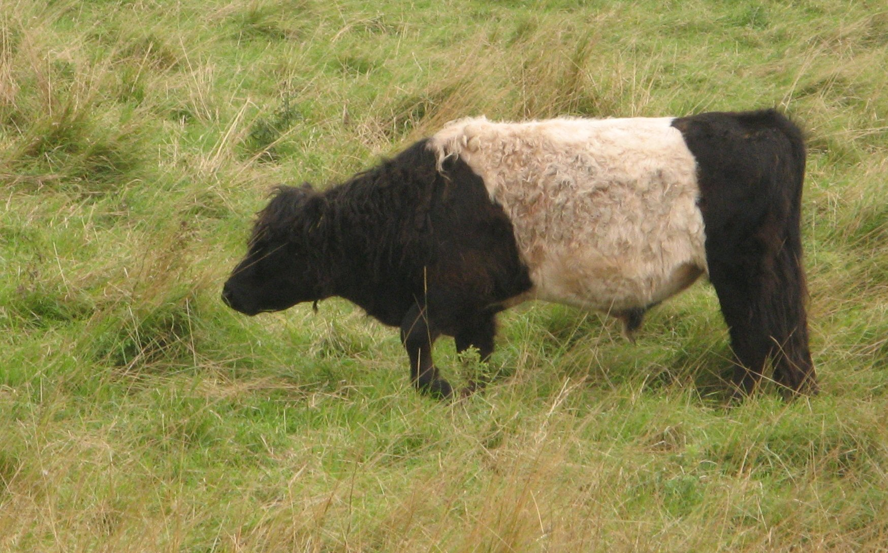 Belted Galloway in Neukoog, Nordfriesland, seen at the Wikimeeting Westküste